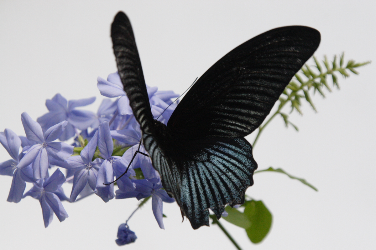 Papilio memnon - Great Mormon, male, Asia, Monsanto Insectarium, St. Louis Zoo